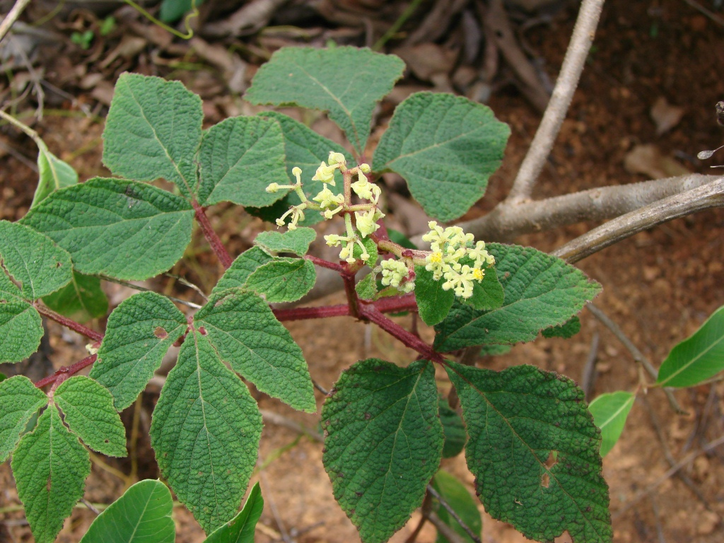 Flowers of Cissus duarteana